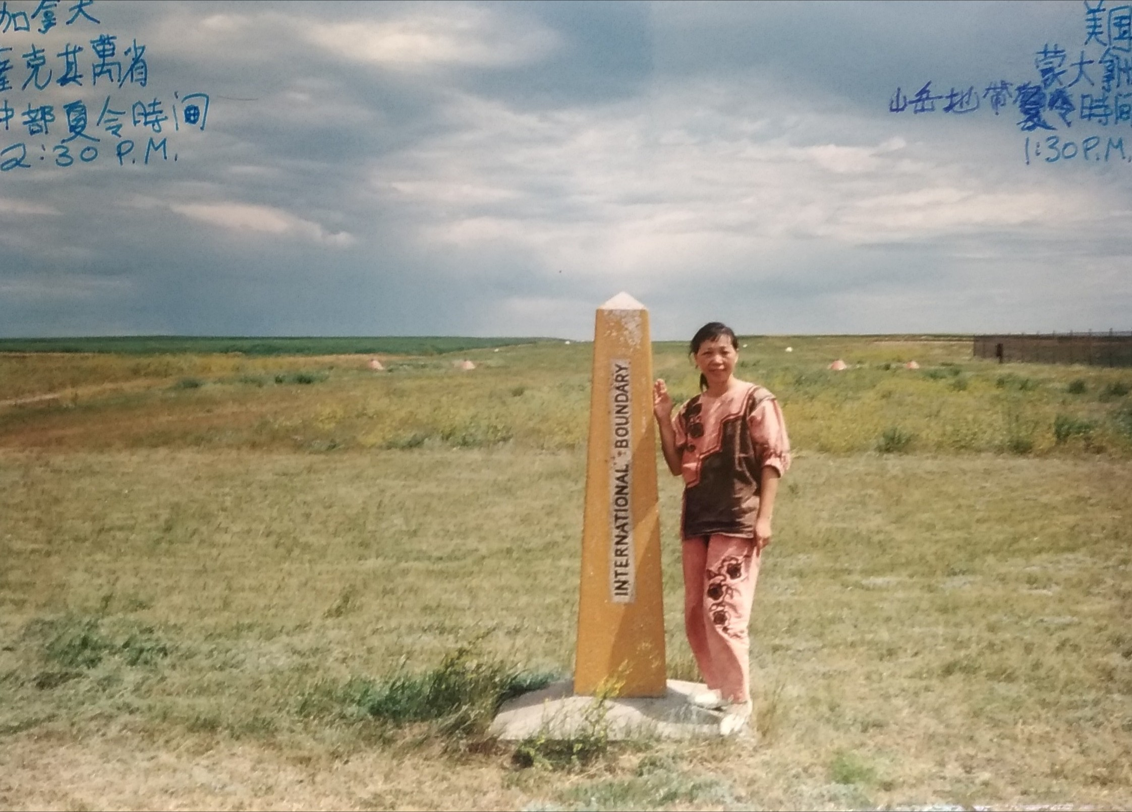 US/Canada border: Montana/Saskatchewan. Looking east, with runway of East Poplar International Airport in background. elev. 762m, Sec4 T37N R48E, Port of Scobey, Daniels Co., Montana / Port of Coronach, Saskatchewan, 105d 25'W 49d 00'N; Ornamental (due to being at roadside instead of in the boonies) monument (apparently supplemental between #538 to the west and #539 (due to being in a valley, not part of original series, but needed by the side of the highway)). After a plane lands, one would exit either thru US or Can. customs, who of course are there mainly for the (light) road traffic. Pictured is DENG Yingyu.